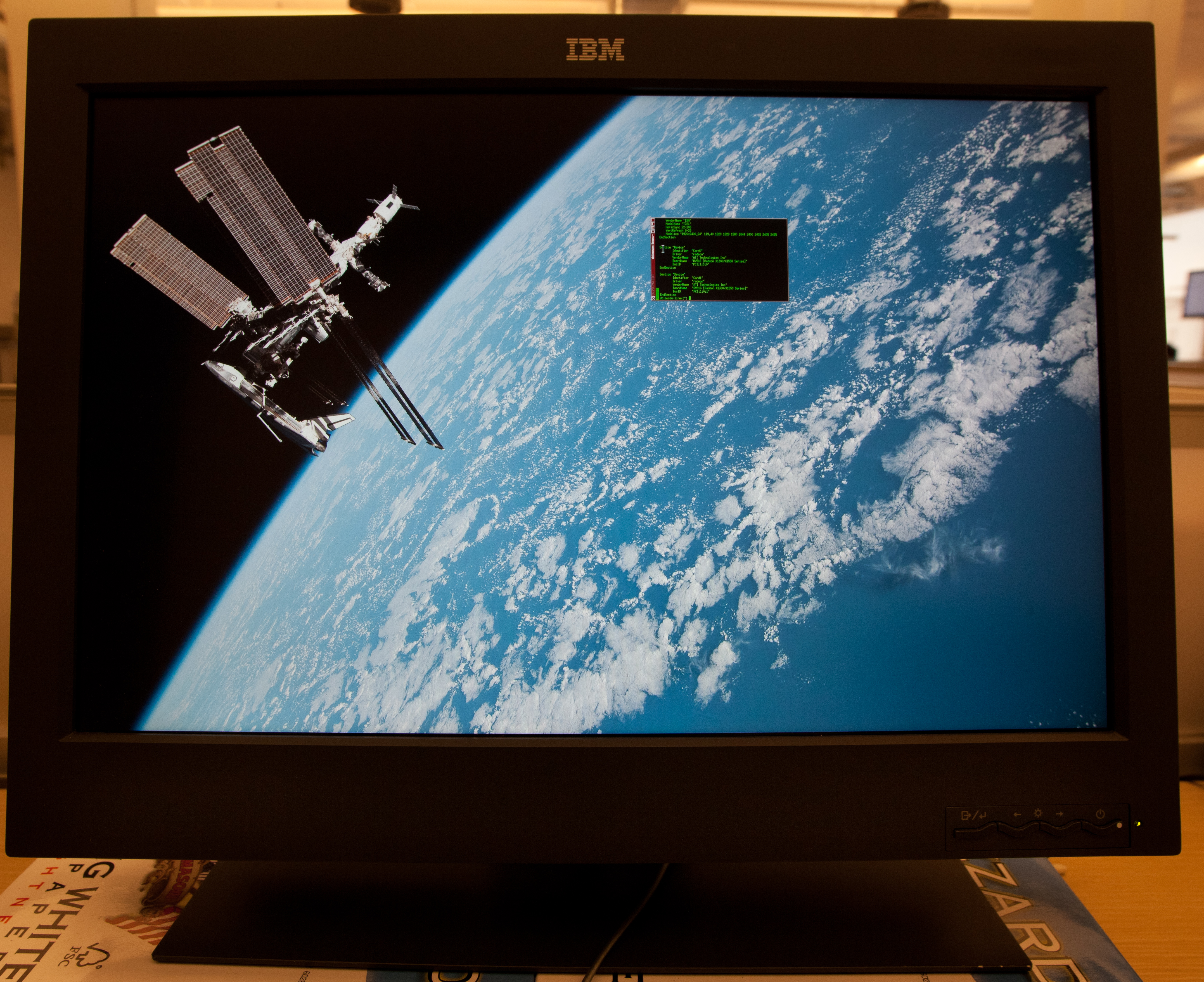 The IBM T221 WQUXGA (3840x2400) monitor with a full size xterm using the normal sized 6x13 fixed font. Background is ISS and Endeavour seen from Soyuz TMA-20 spacecraft, an image from ESA by astronaut Paolo Nespoli.